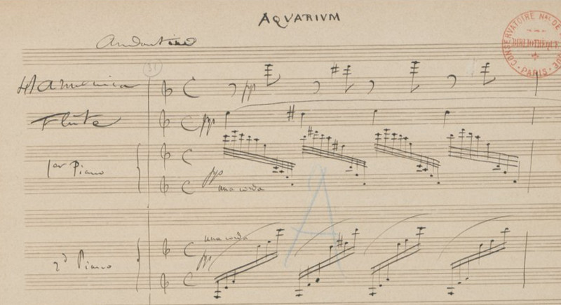 Beginning of the manuscript score of 'Aquarium', movement 7 of the Carnival of the Animals, showing part for glass harmonica